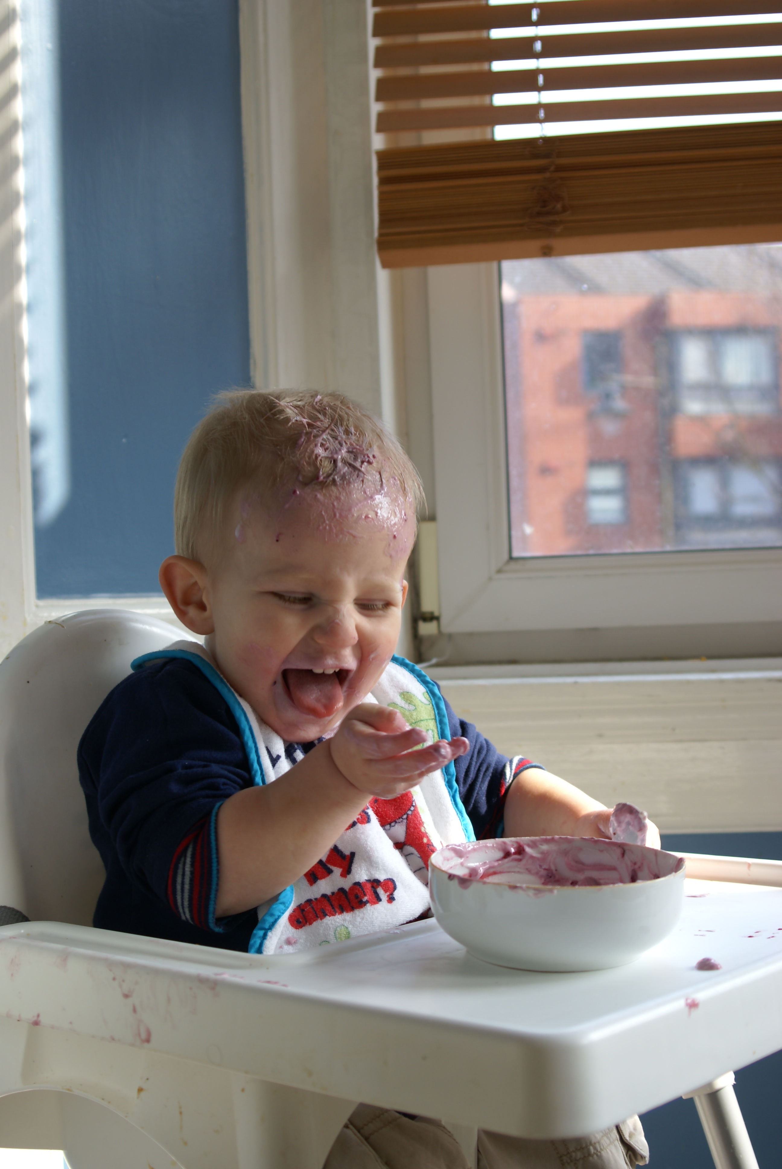 Leon eating yoghurt.